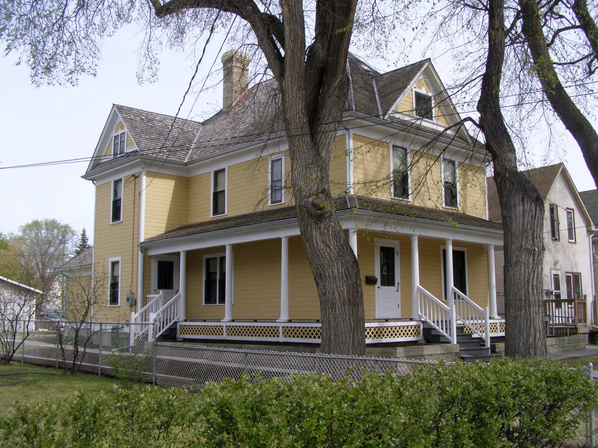 This was the childhood residence of Canada's famous prairie author Gabrielle Roy who was Franco-Manitoban.